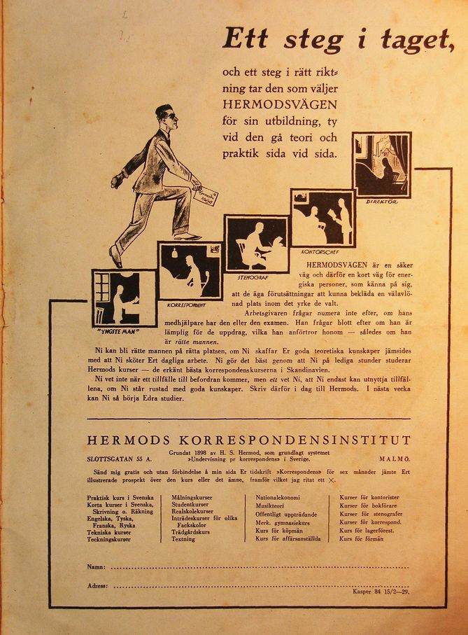 Advertisement for correspondence courses by Hermods in Sweden